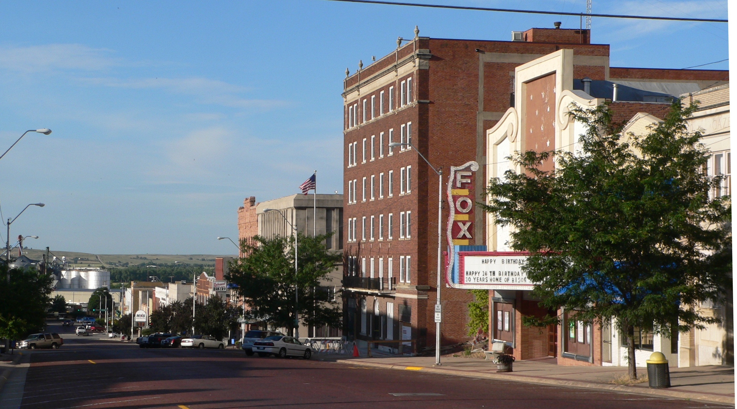 Downtown McCook, Nebraska: west side of George Norris Avenue, looking south from about E Street.